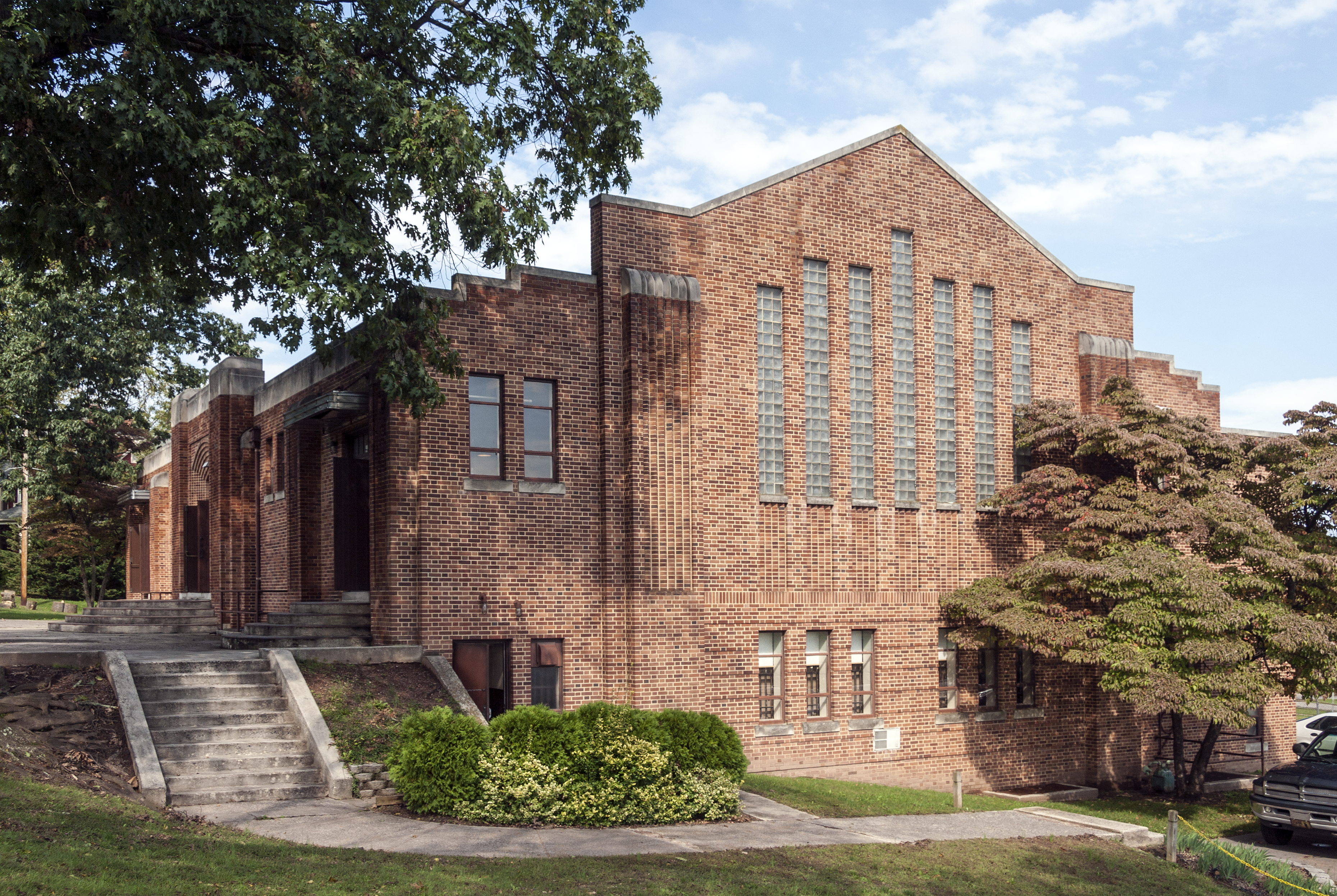 The south side of the Gettysburg Armory, Gettysburg, Pennsylvania, USA.